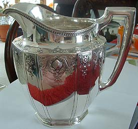 Took photo myself with my digital camera.